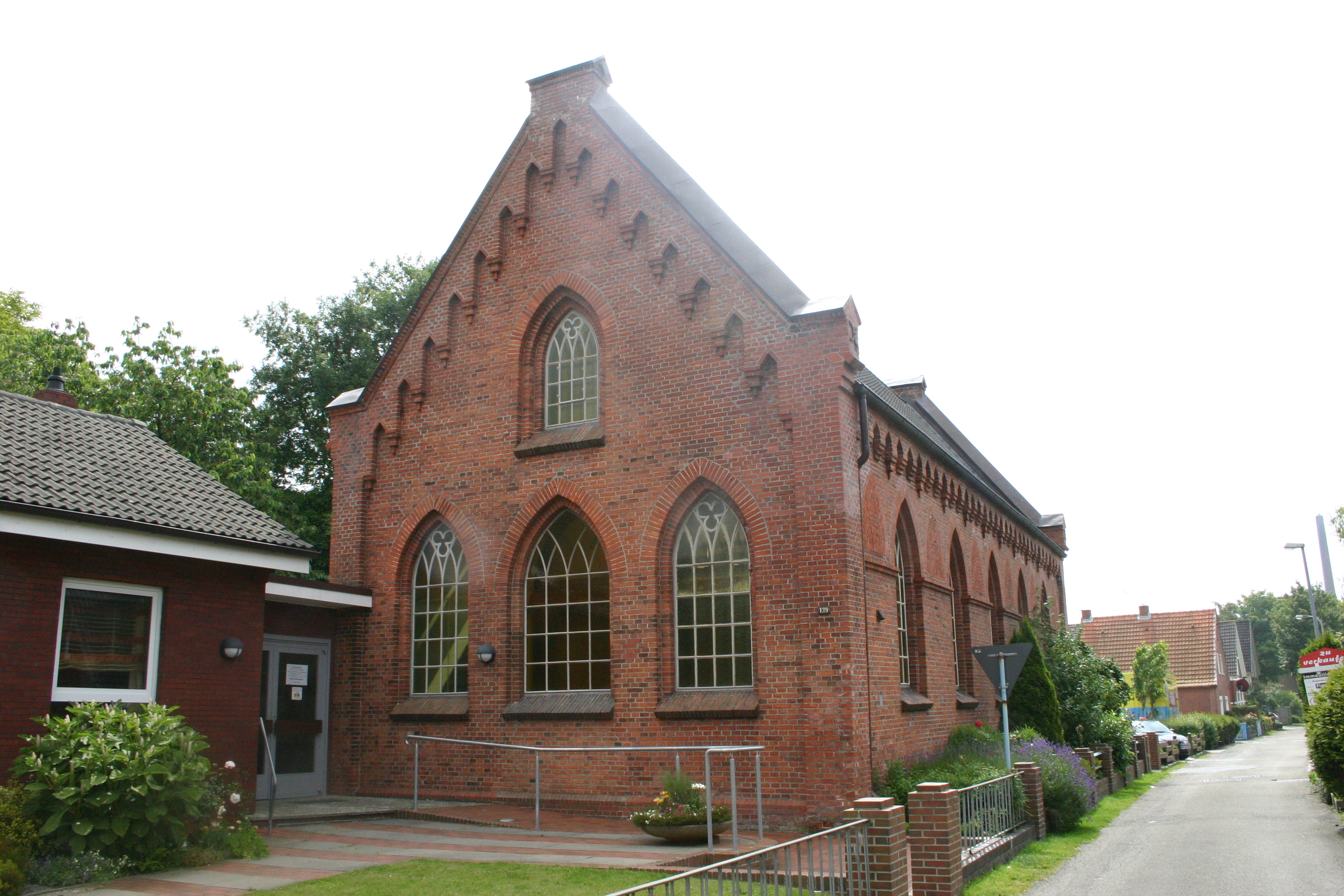 Historic Christ Church (bapt.) in Norden, district of Aurich, East Frisia, Germany